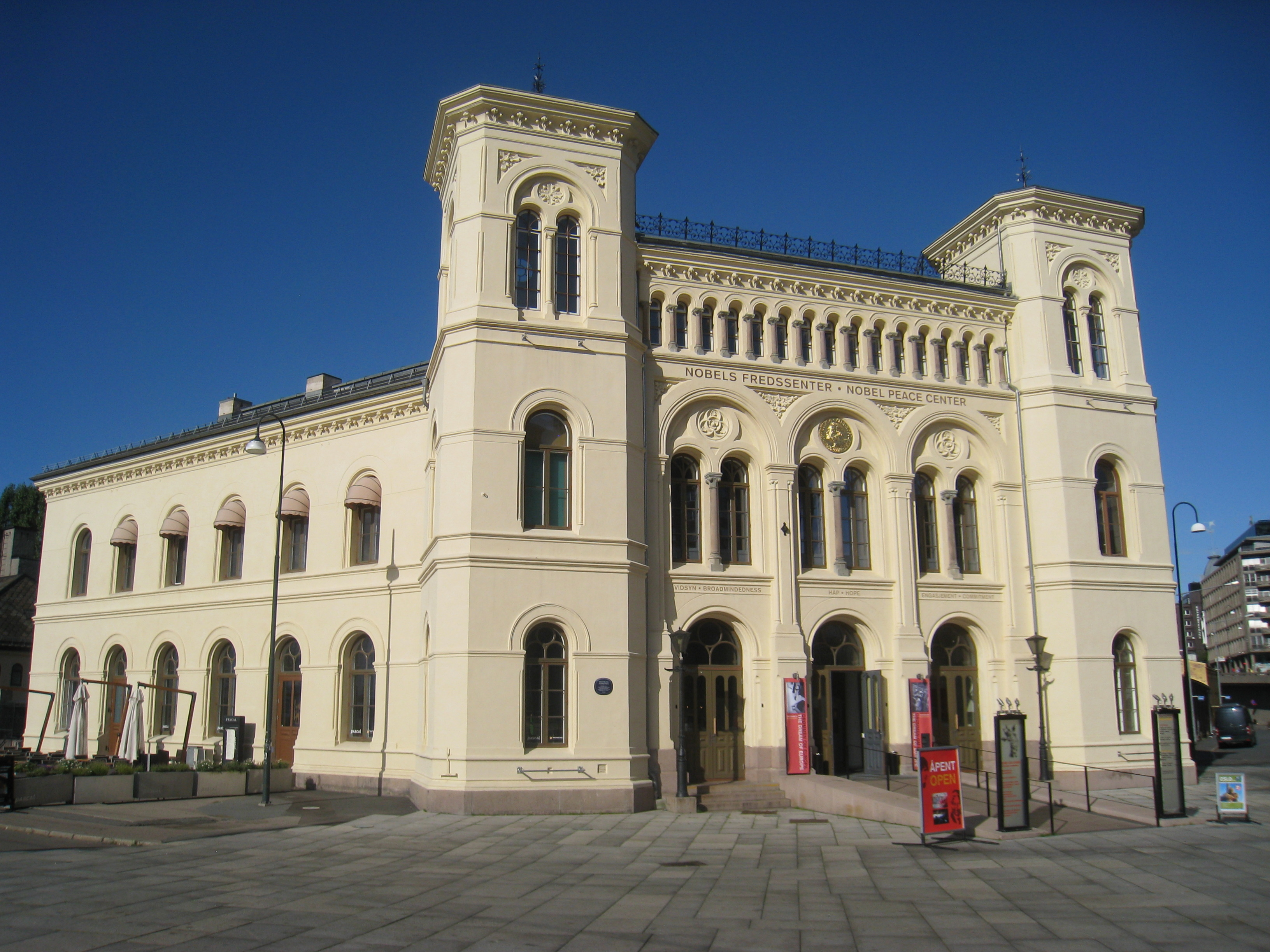 Nobel Peace Center, Oslo, Norway.